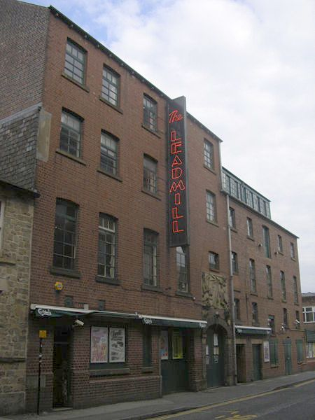 The Leadmill music venue and nightclub in Sheffield.